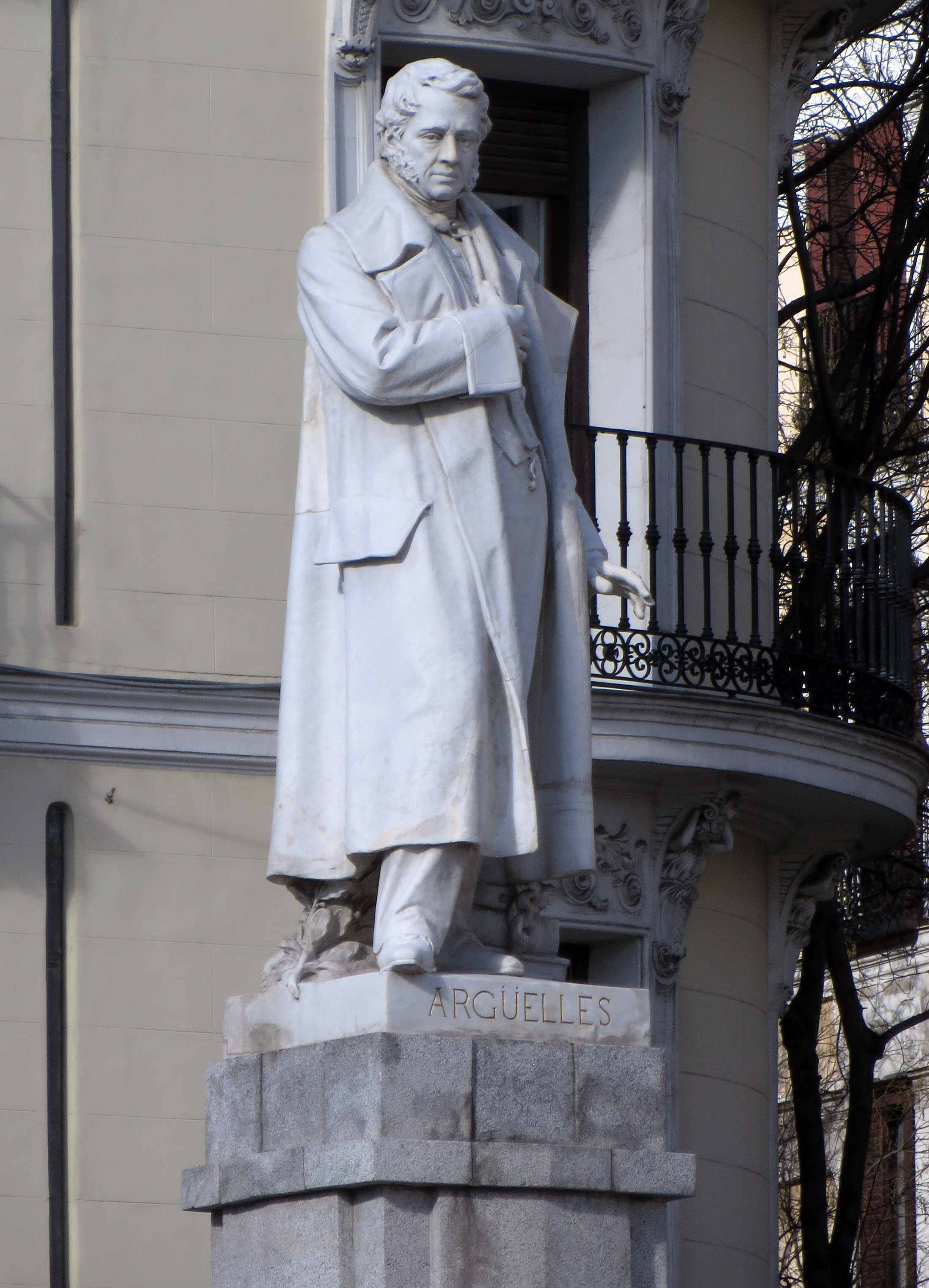 Agustín Argüelles (1776-1844), spanish politician and lawyer